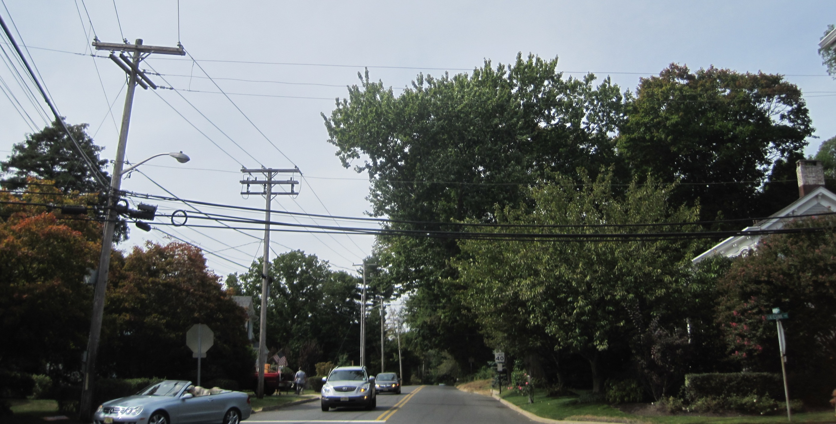 Photo of Navesink, New Jersey, a census designated place within Middletown Township. Photo taken at Monmouth Avenue westbound at Locust Point Road / Navesink Avneue.